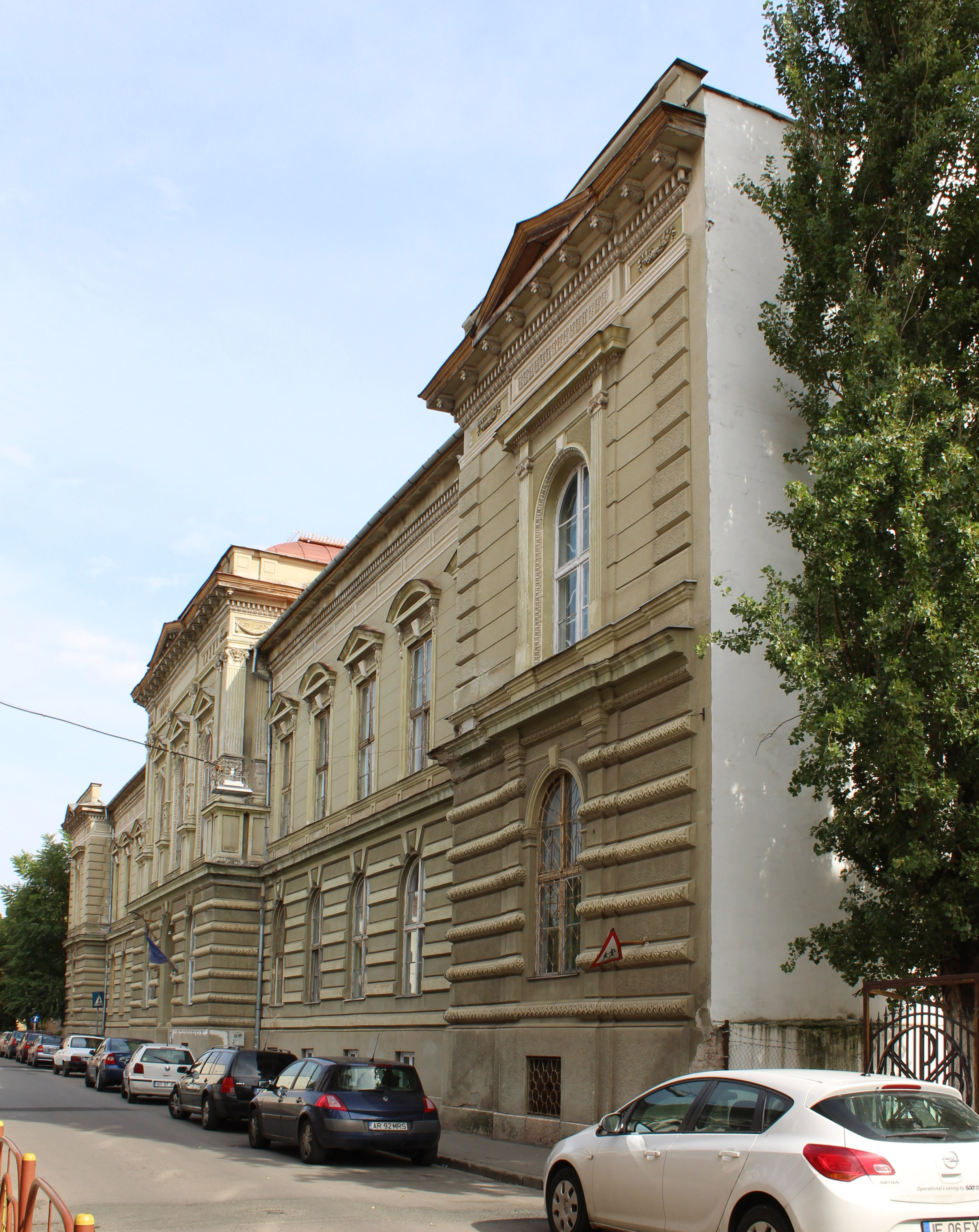 The New Preparandia, Arad, Romania, built 1885